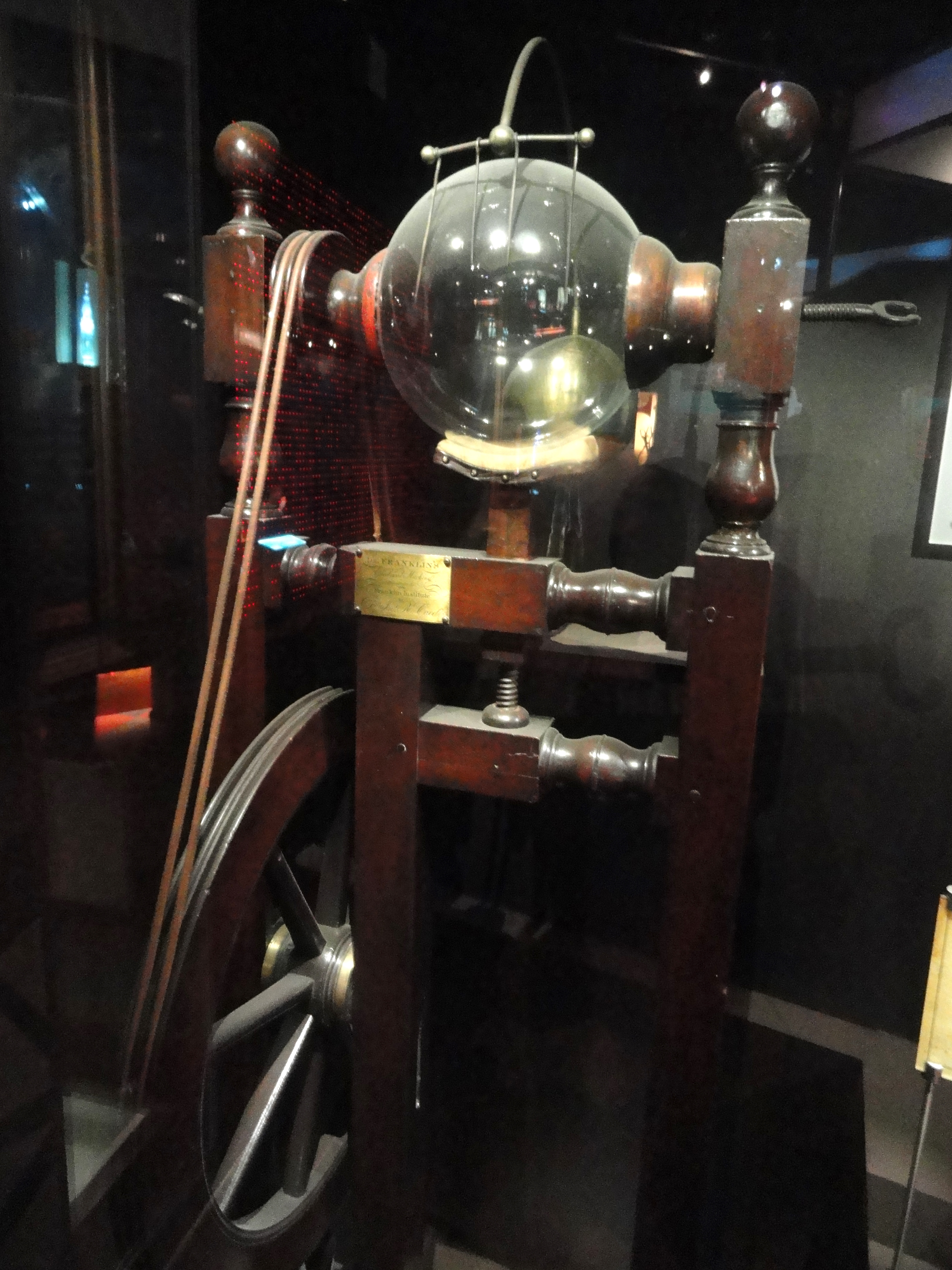 Exhibit from the Benjamin Franklin collection in the Franklin Institute, Philadelphia, Pennsylvania, USA.